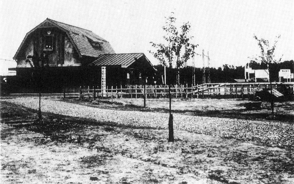 OER Inada-noborito (Mukogaoka-yuen) Staton on April 1927.